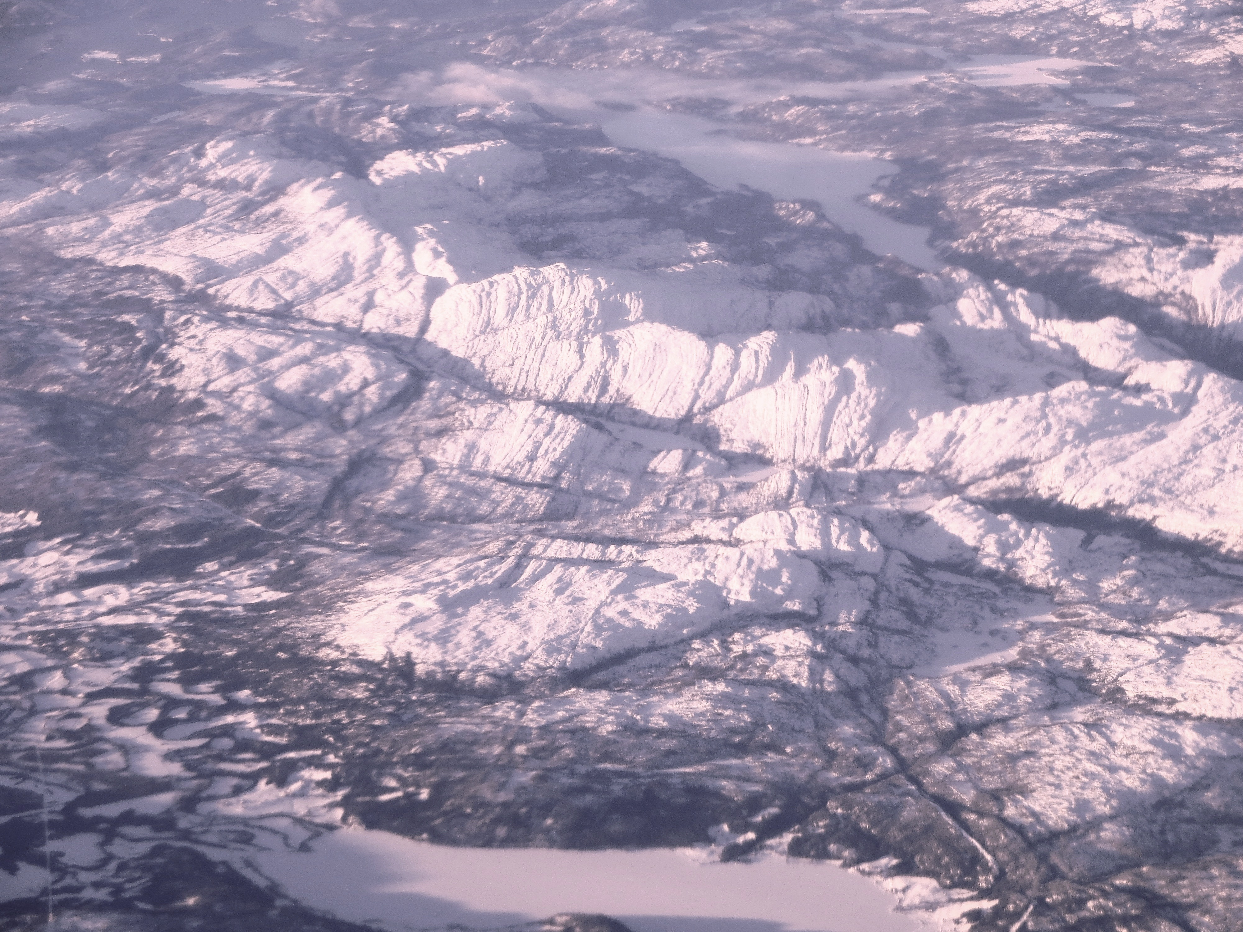 Aerial view from the east towards west, over Namsos and Høylandet municipalities, Nord-Trøndelag county, Norway.